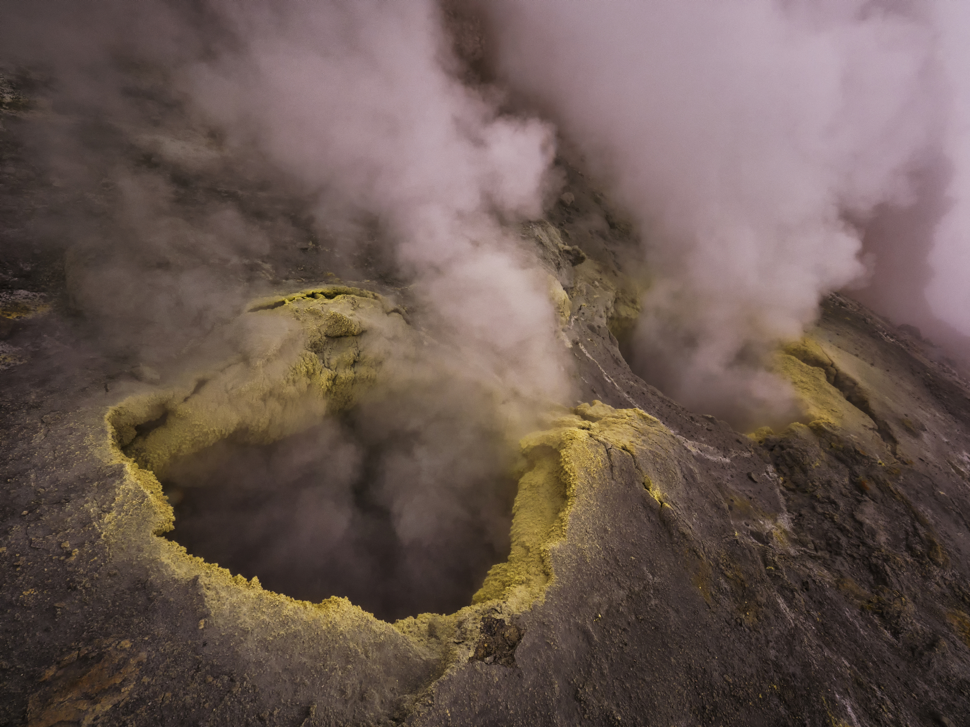 Fumarole of Mutnovsky Volcano. South Kamchatka Sanctuary, Russia This image is related to the protected area of Russia number 4110032